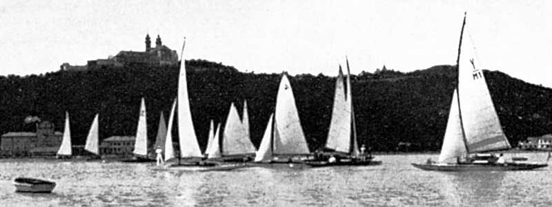 Ismeretlen fényképész felvétele. Megjelent a Yotel 282 DVD-n ISBN 978-615-5011-15-3. 1934. július 27-én reggel 9 óra körül készült Balatonfüreden, a Magyar Királyságban. A Kékszalag Nemzetközi Vitorlásverseny rajtja. At the right hand: Rabonbán, the 30 yolle of Ugron Gábor, president of the Magyar Vitorlás Yacht Szövetség (Hungarian Sailing Yacht Society) who promoted the idea of a new sailing competition